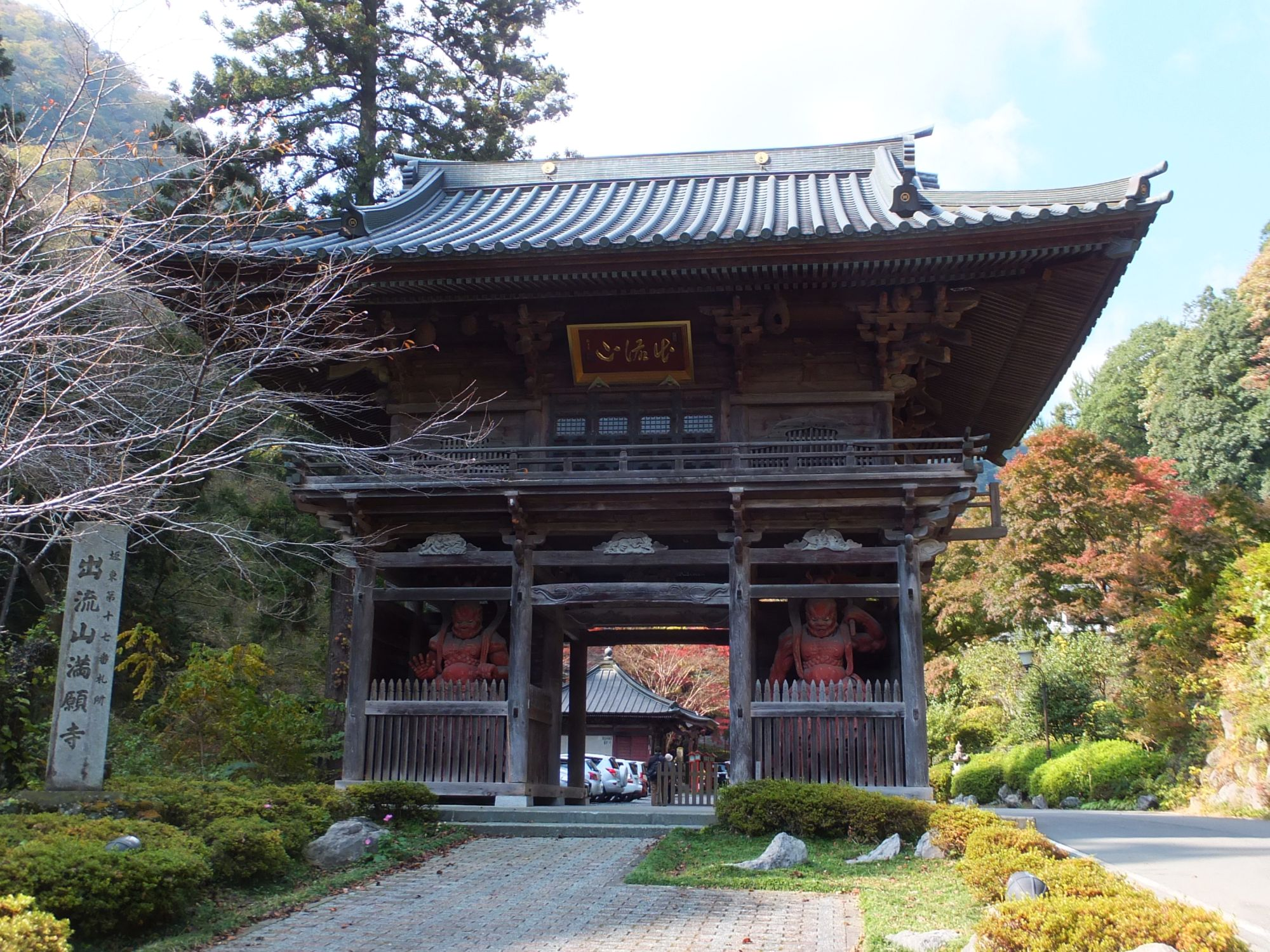 Niōmon gate of Mangan-ji temple in Tochigi, Tochigi prefecture